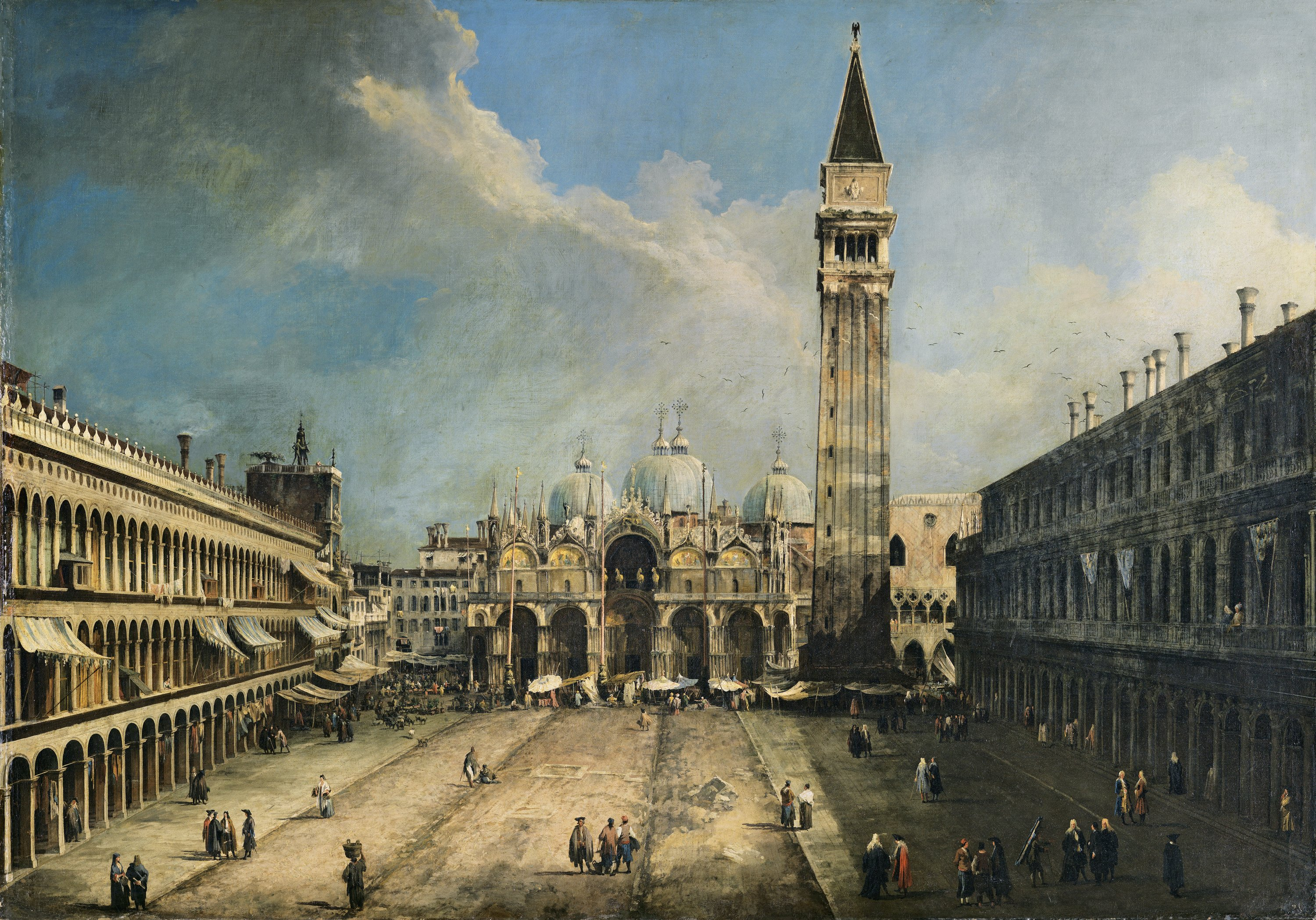 The paving of the Piazza San Marco in Venice was replaced between 1723 and 1734 as designed by Andrea Tirali. In the present canvas the areas of paving nearest to the Procuratie are completed but the central element is unfinished. This central area would have a geometrical design, as can be seen in the canvas by Canaletto in the collection of the Duke of Bedford, dated to the following decade to the present one. The state of the piazza seen here corresponds to 1723 to 1724 and it is known that between 1725 and 1727 the decorative paving on either side to the central zone was completed.